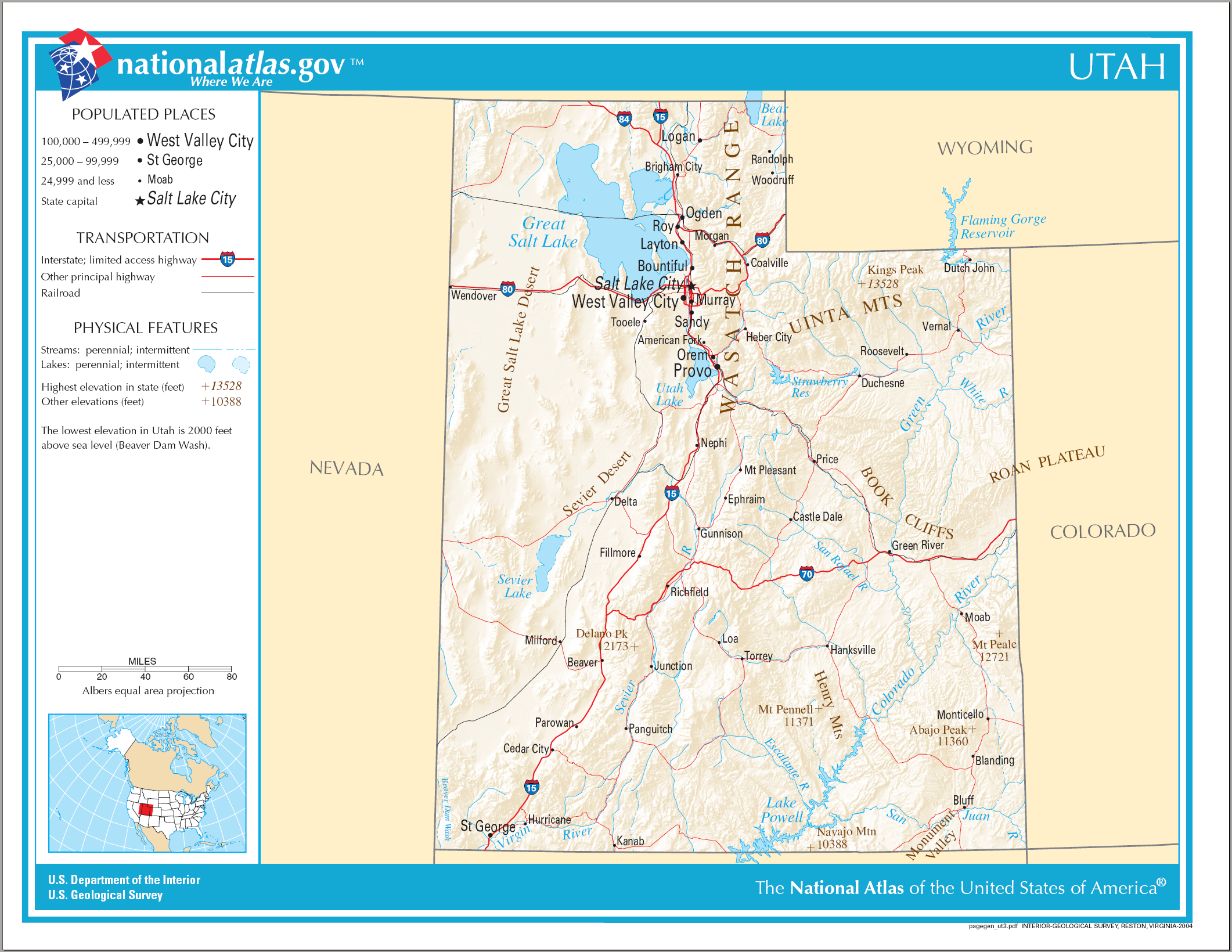 Map of Utah.